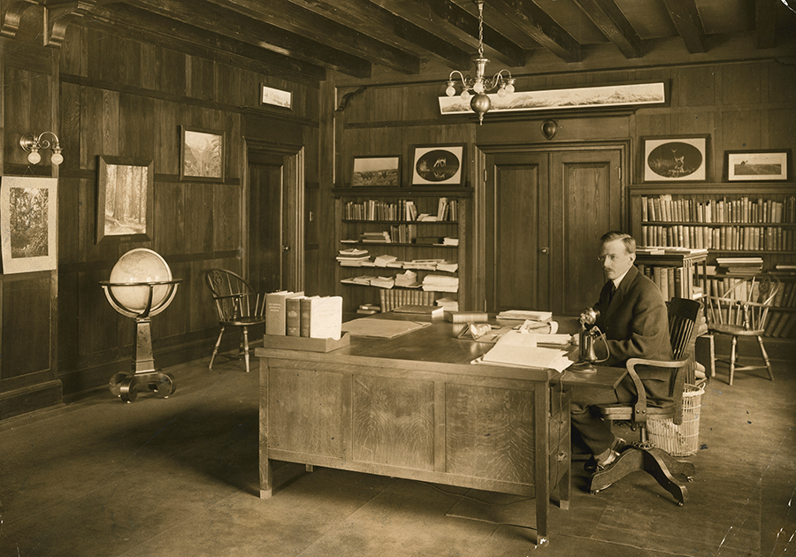 National Geographic Magazine editor, Gilbert H. Grosvenor at work at the National Geographic Headquarters in Washington D.C., 1914.Photograph by Leet Brothers, National Geographic Creative